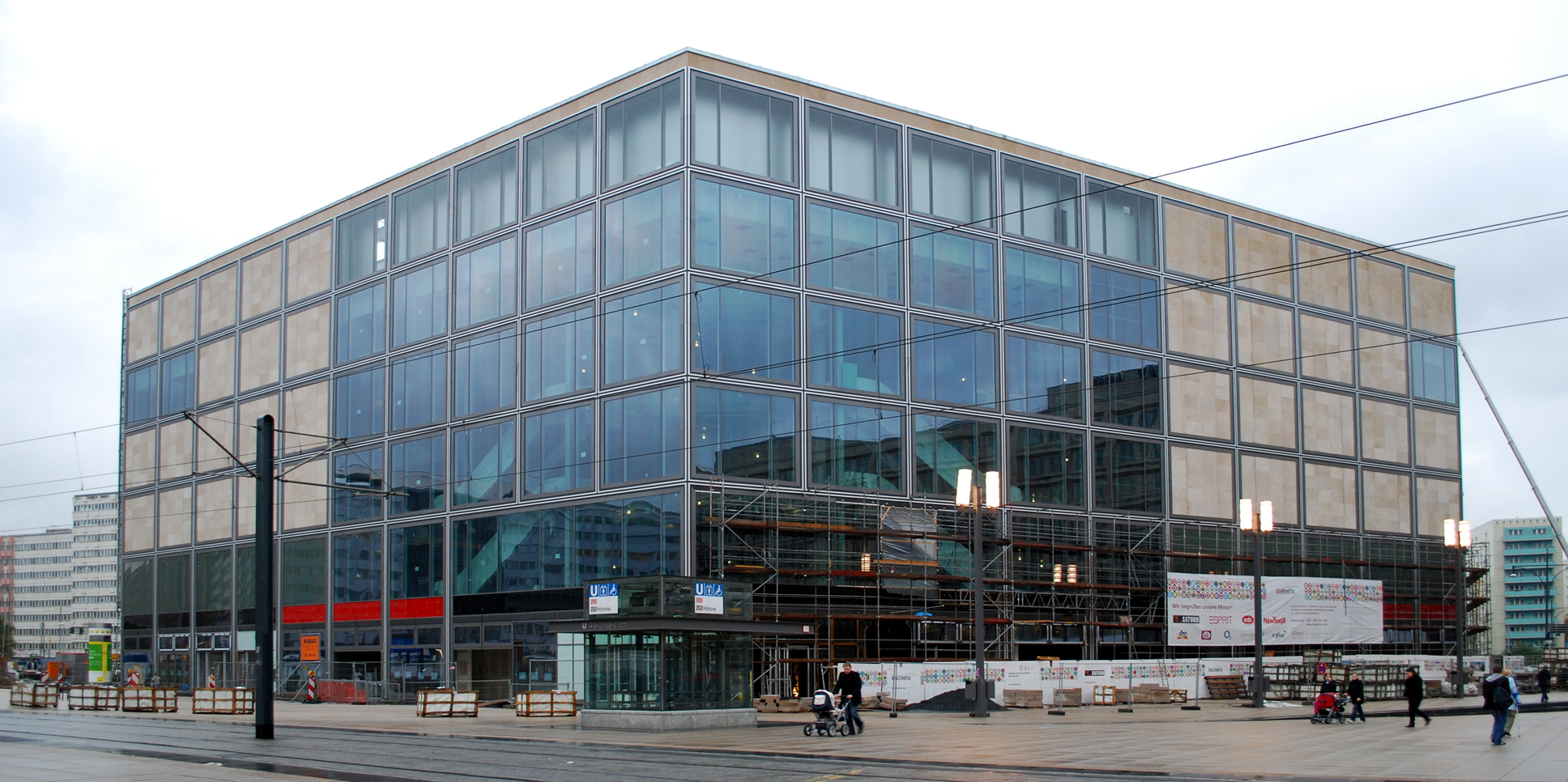 "die mitte" at Berlin Alexanderplatz, during construction